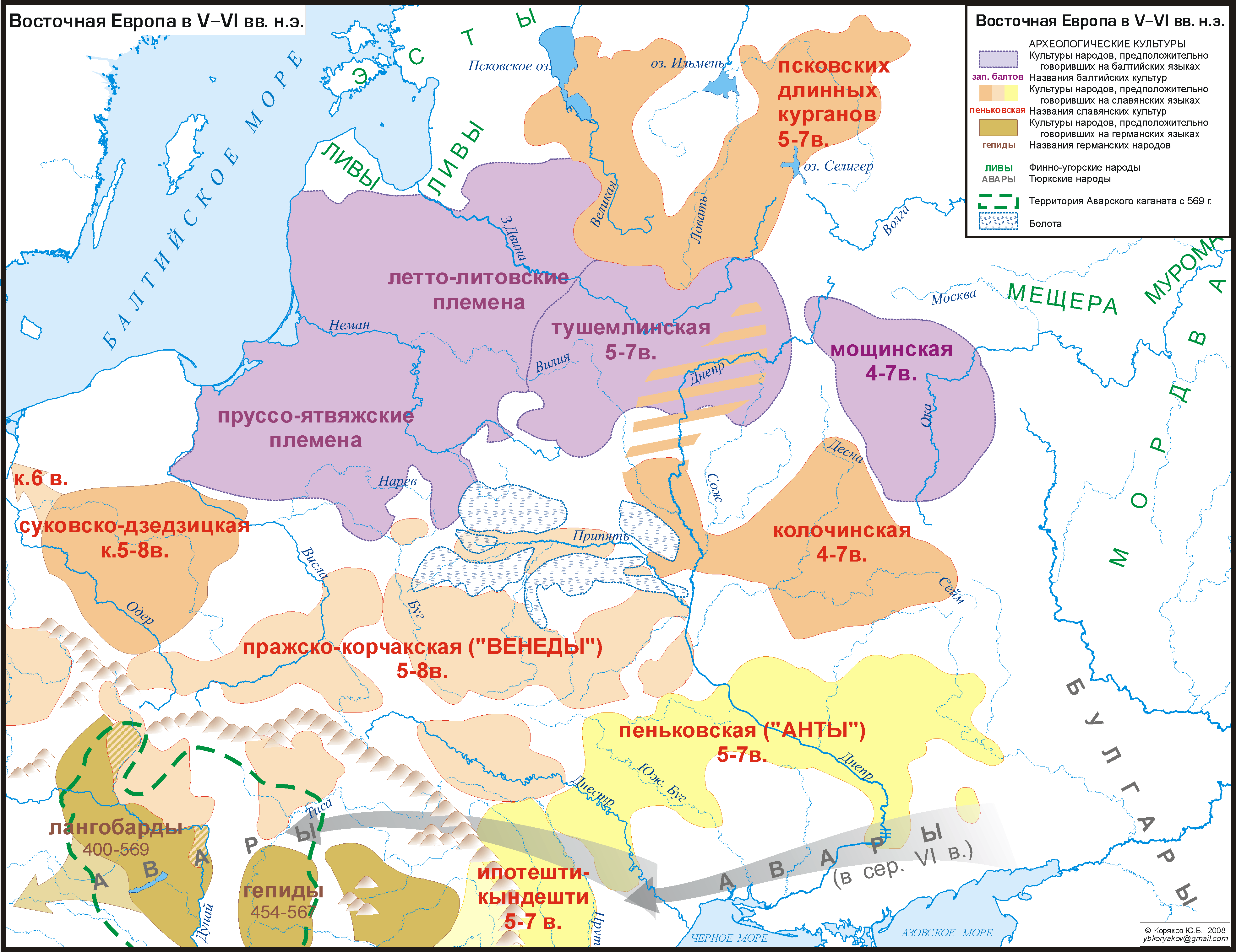 Map of the Baltic tribal cultures and archaeological V-VII centuries.